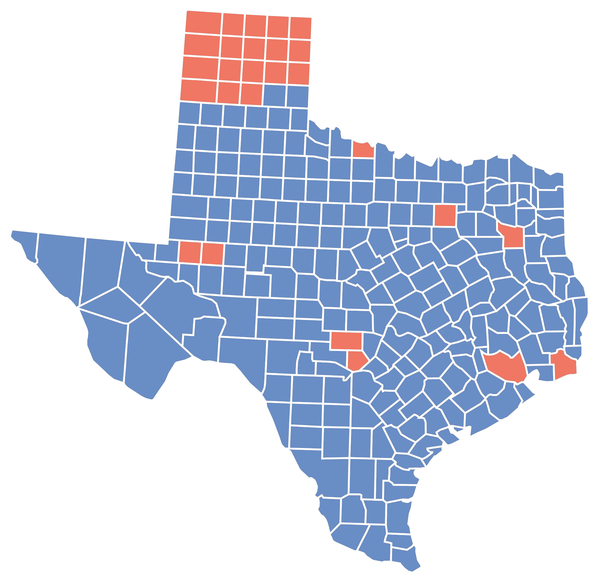 Results of the 1968 Texas gubernatorial election by county